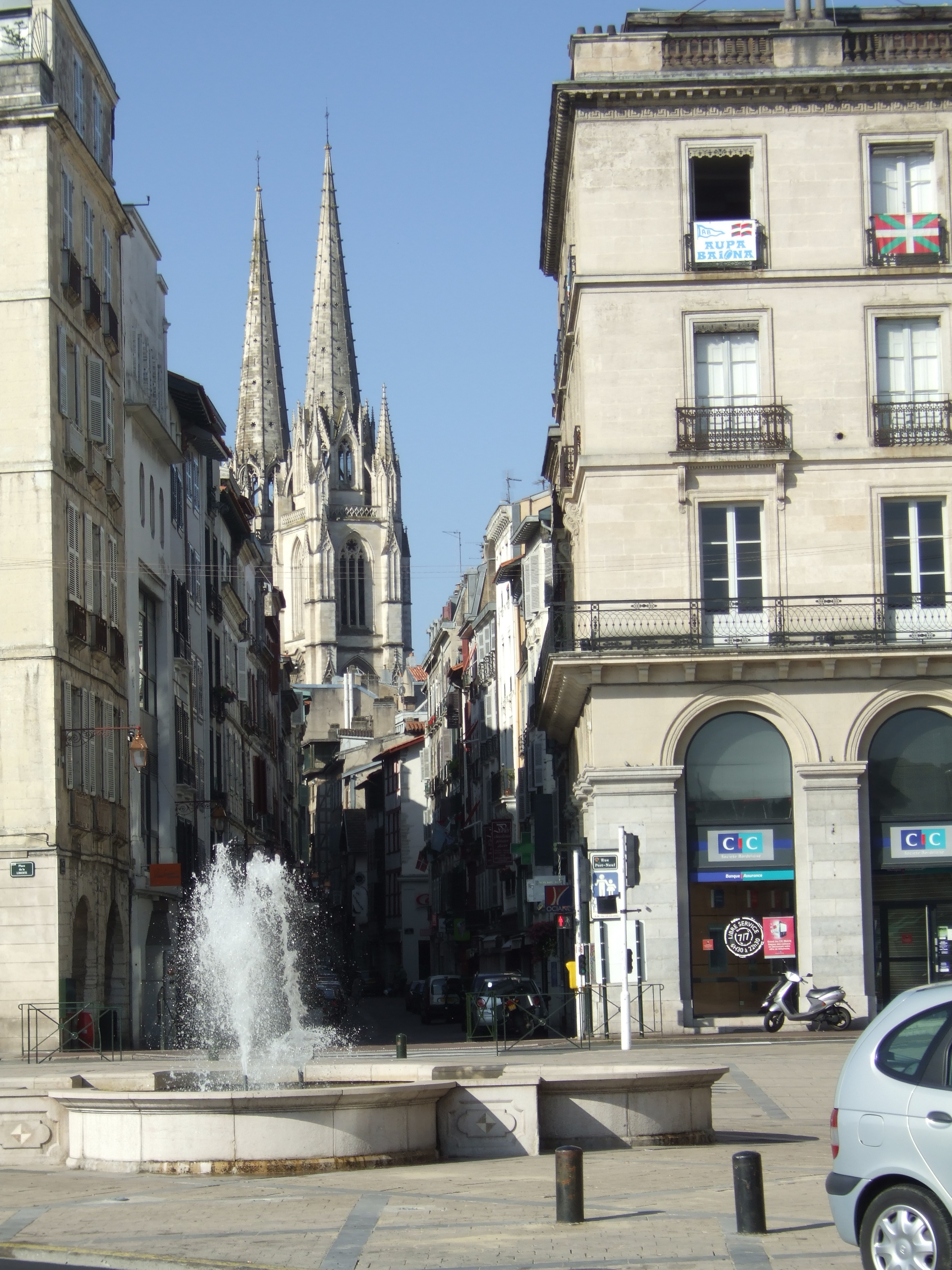 Foreshortening of the Cathedral of Bayonne